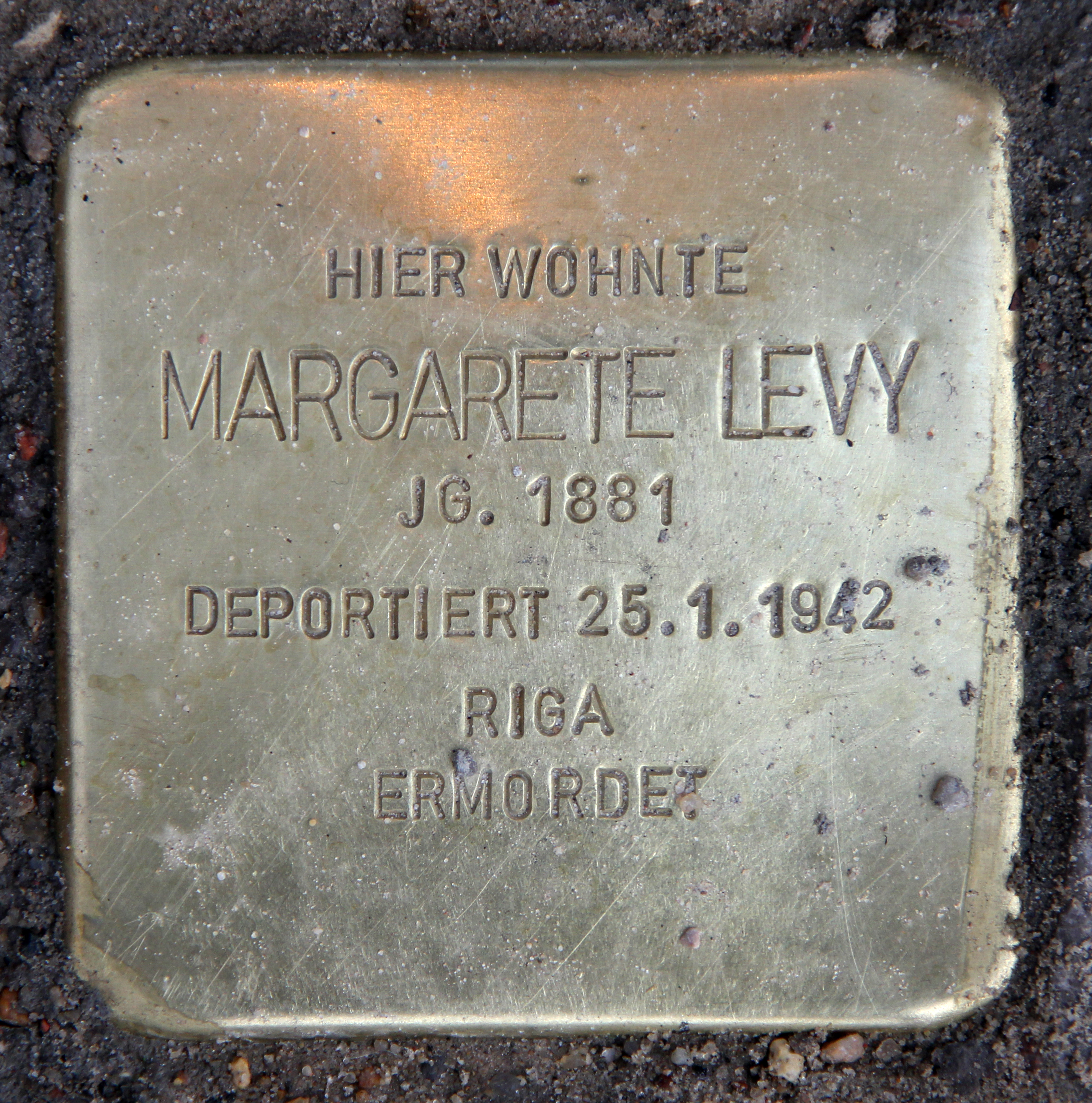 "Stolperstein" (stumbling block), Margarete Levy, Uhlandstraße 137, Berlin-Wilmersdorf, Germany